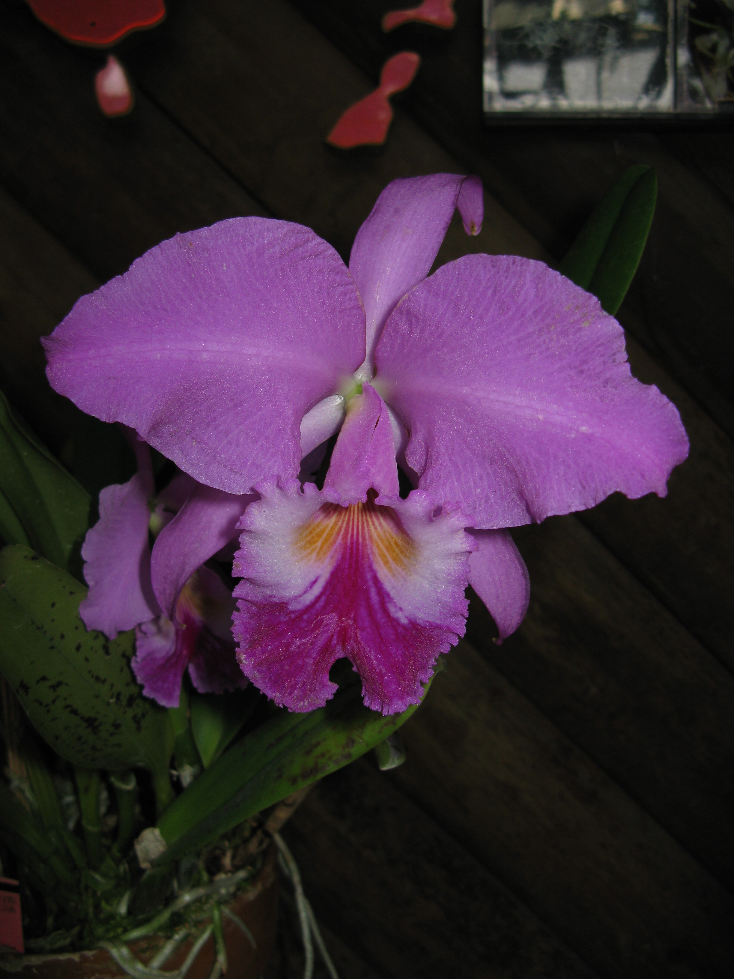 Cattleya labiata 'Helena' Place:Osaka Prefectural Flower Garden,Osaka,Japan